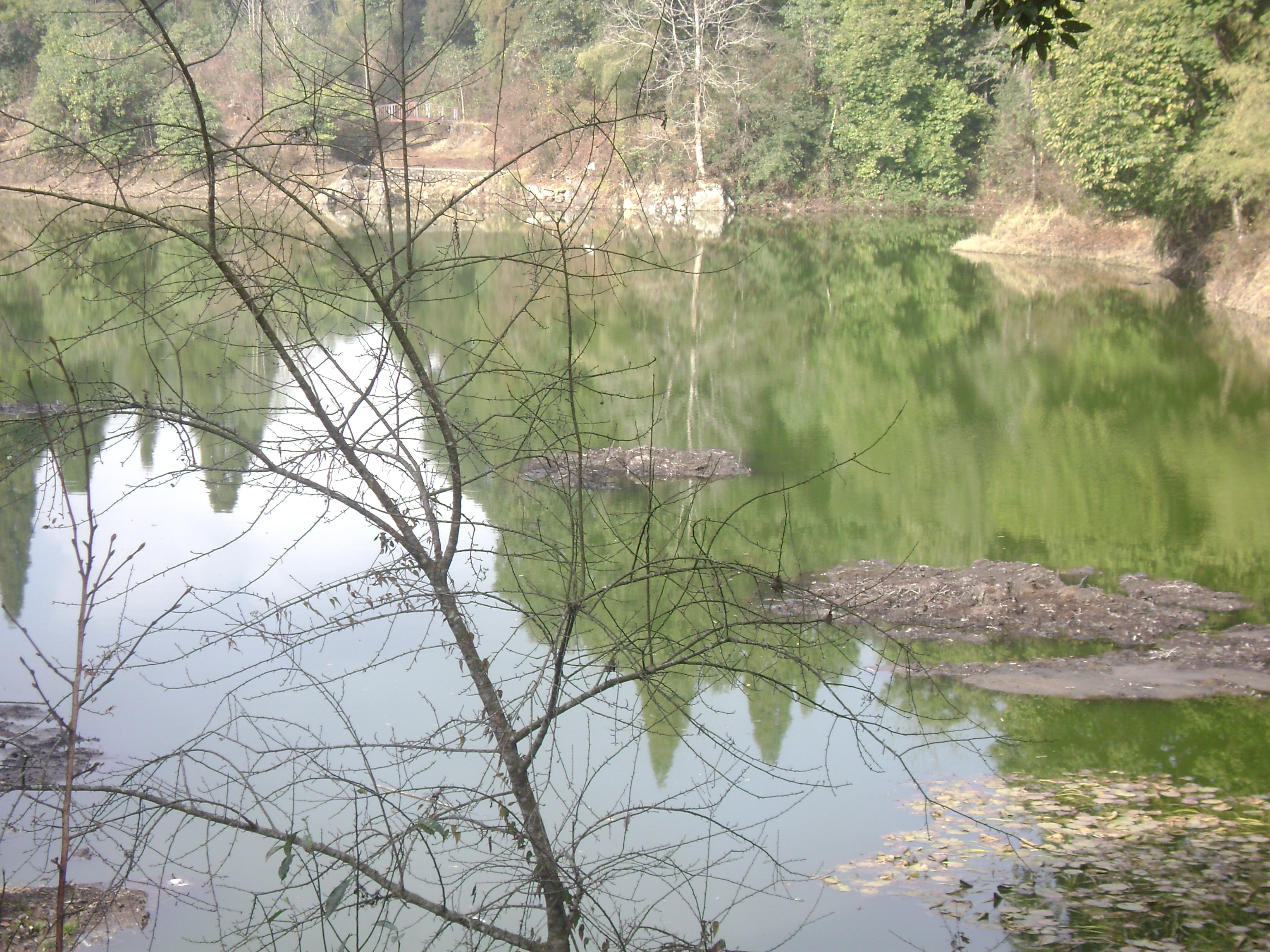 Mai Pokhari Ilam.